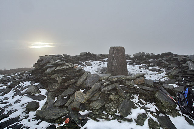 South Barrule Summit and Trig pillar